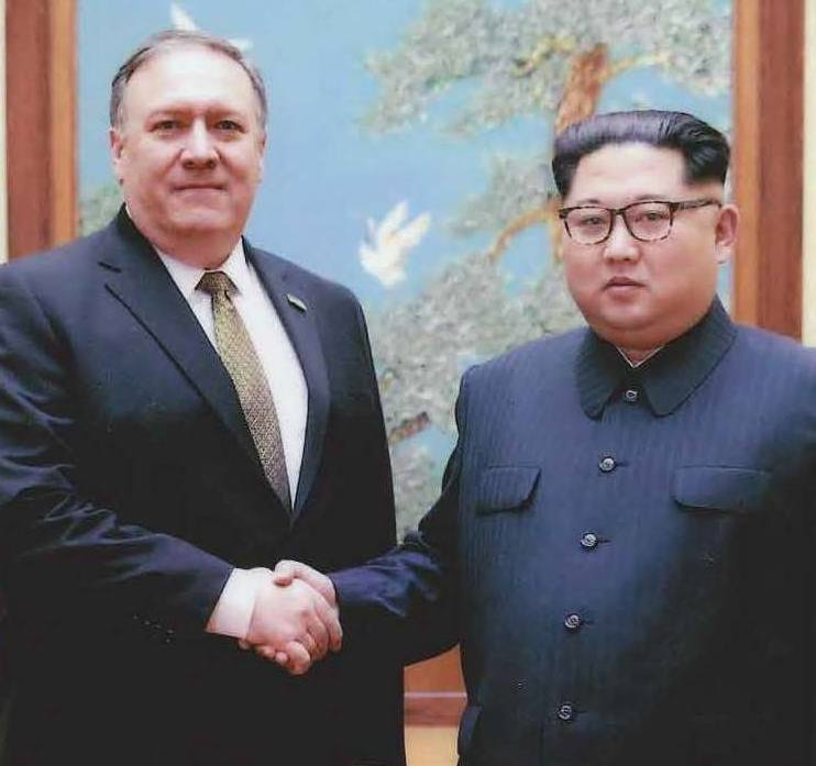 Photos of Secretary of State Pompeo in North Korea. Secretary Pompeo will do an excellent job helping President Trump lead our efforts to denuclearize the Korean Peninsula.